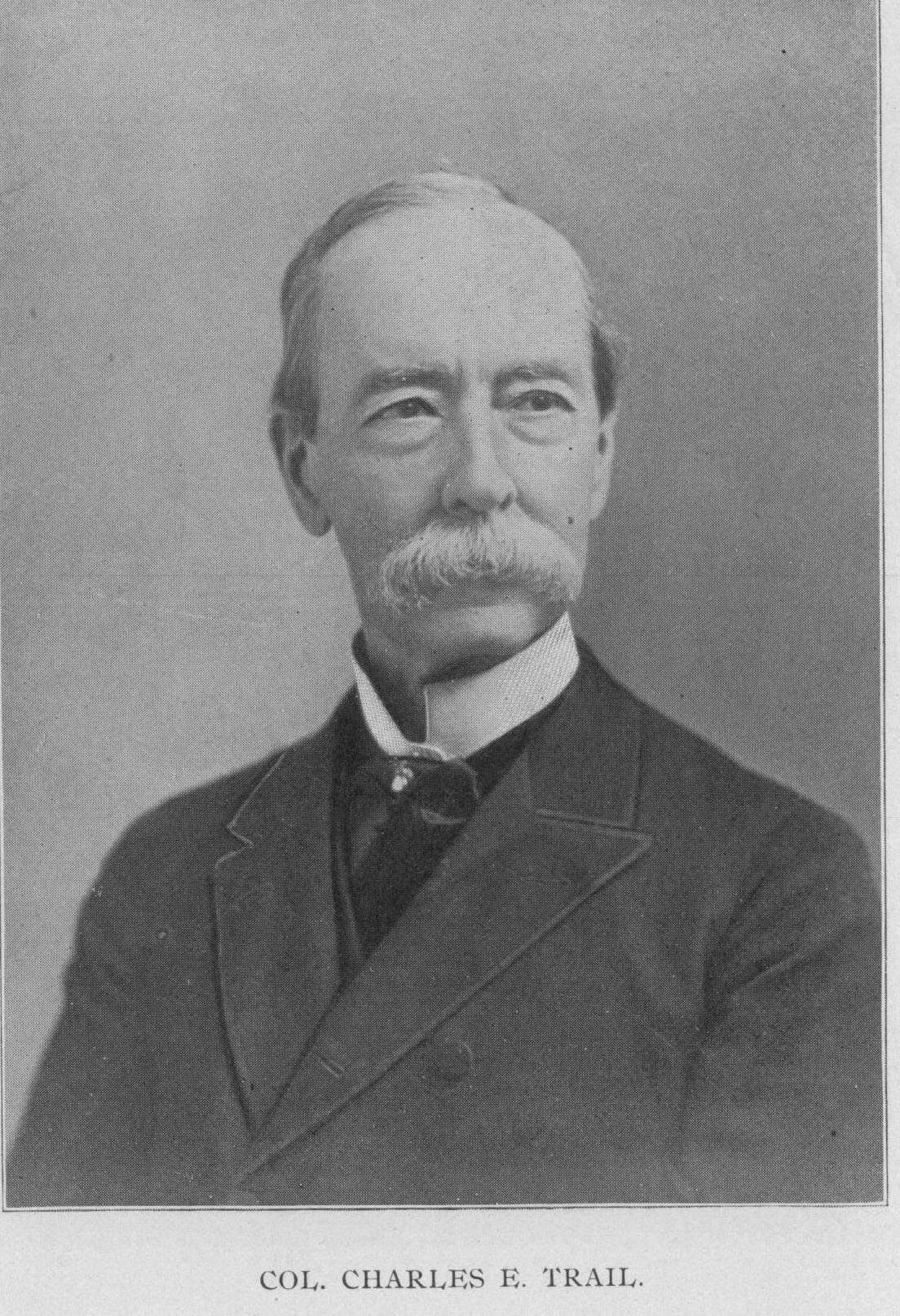 Photo of Trail from Archives of Maryland (Biographical Series) in Portrait and Biographical Record of the Sixth Congressional District Maryland. Chapman Publishing Company: 1898.